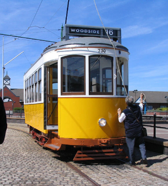 Tramstop at Woodside